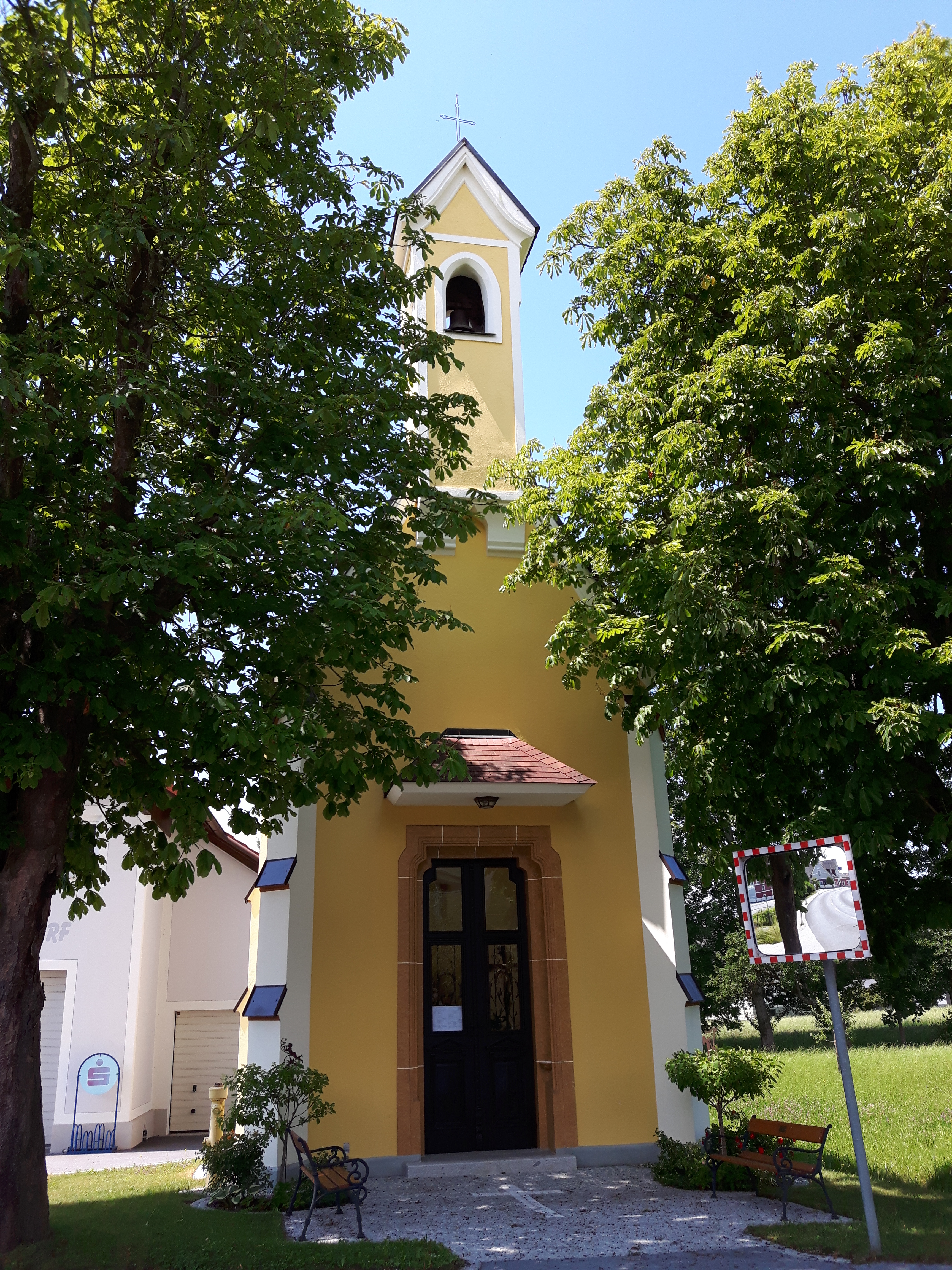 The chapel in Berndorf in Hitzendorf, Styria, Austria